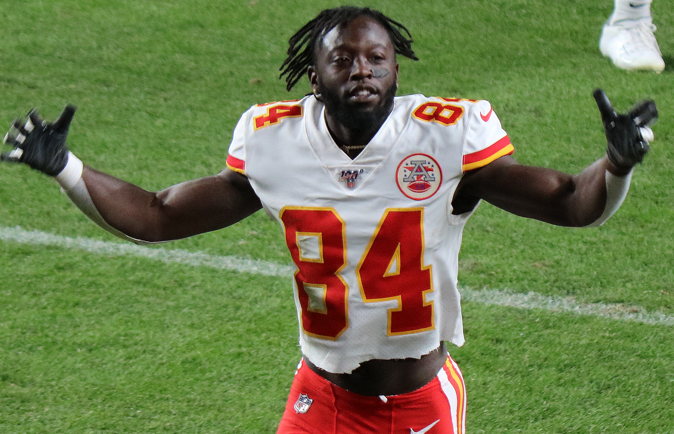 De'Anthony Thomas, a National Football League player.